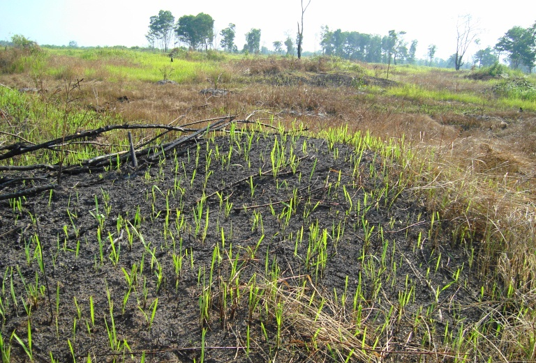 Farming areas that have been burned in the Kampar regency, Riau.